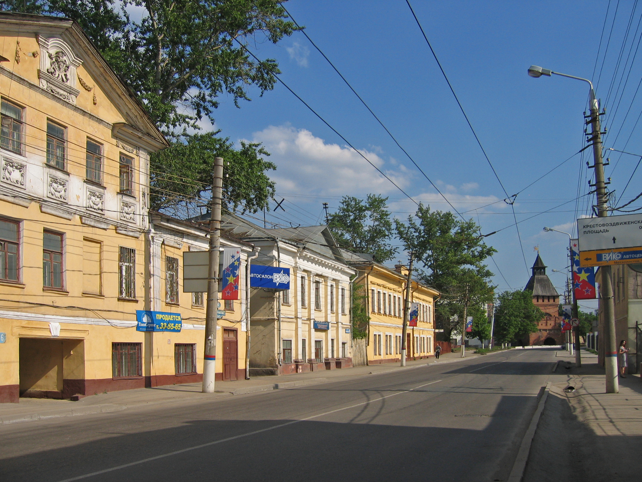 Former Pyatnitskaya street (today: Metallistov Street) in the old center of Tula